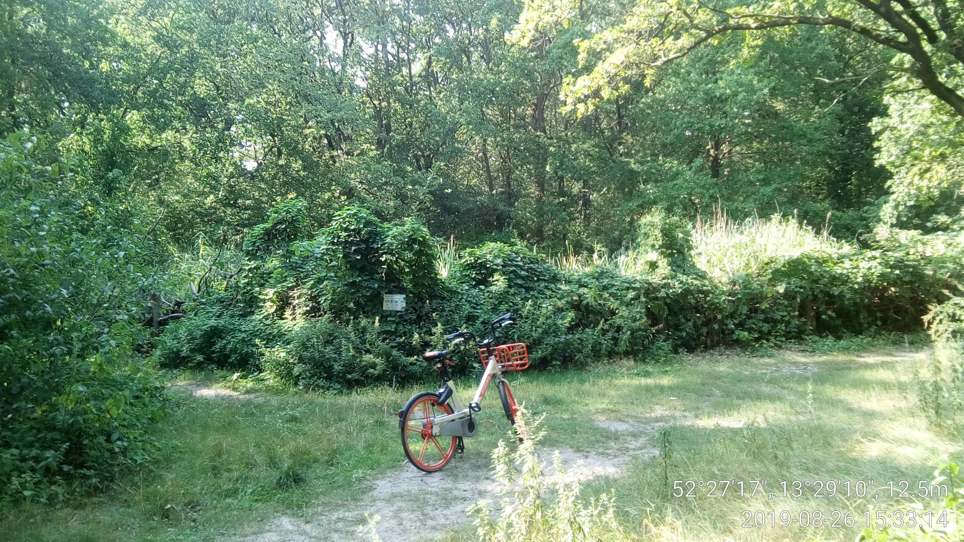 The Königsheideteich wetland is home to the rare amphibiae.